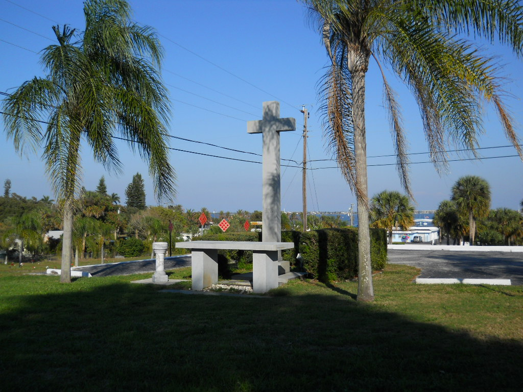 Alleluia Cross and Outdoor Altar at All Saints Episcopal Church, which overlooks All Saints Cemetery. The Indian River is in the background with Hutchinson Island beyond.